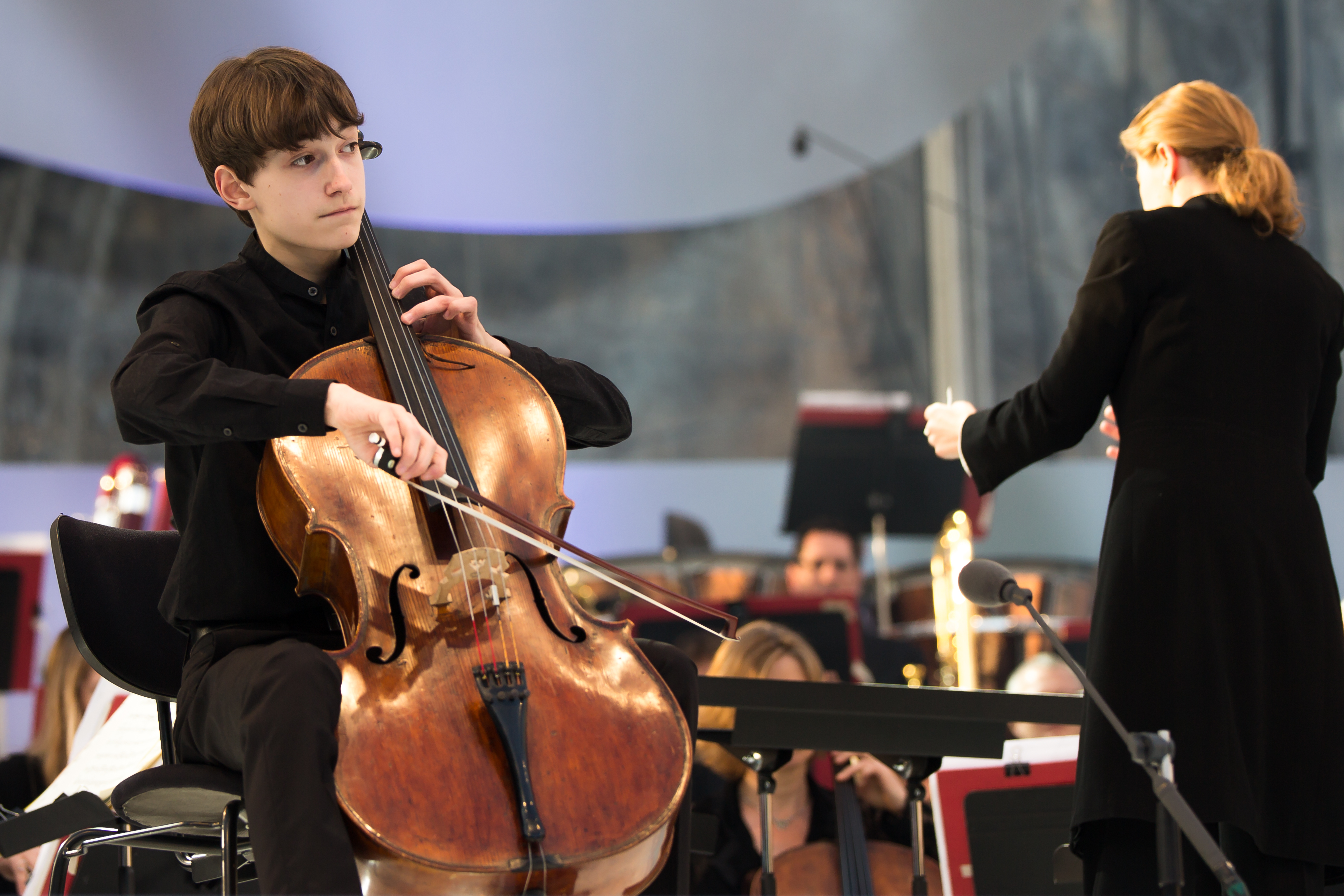 Gergely Devich at final rehearsal for Eurovision Young Musicians 2014